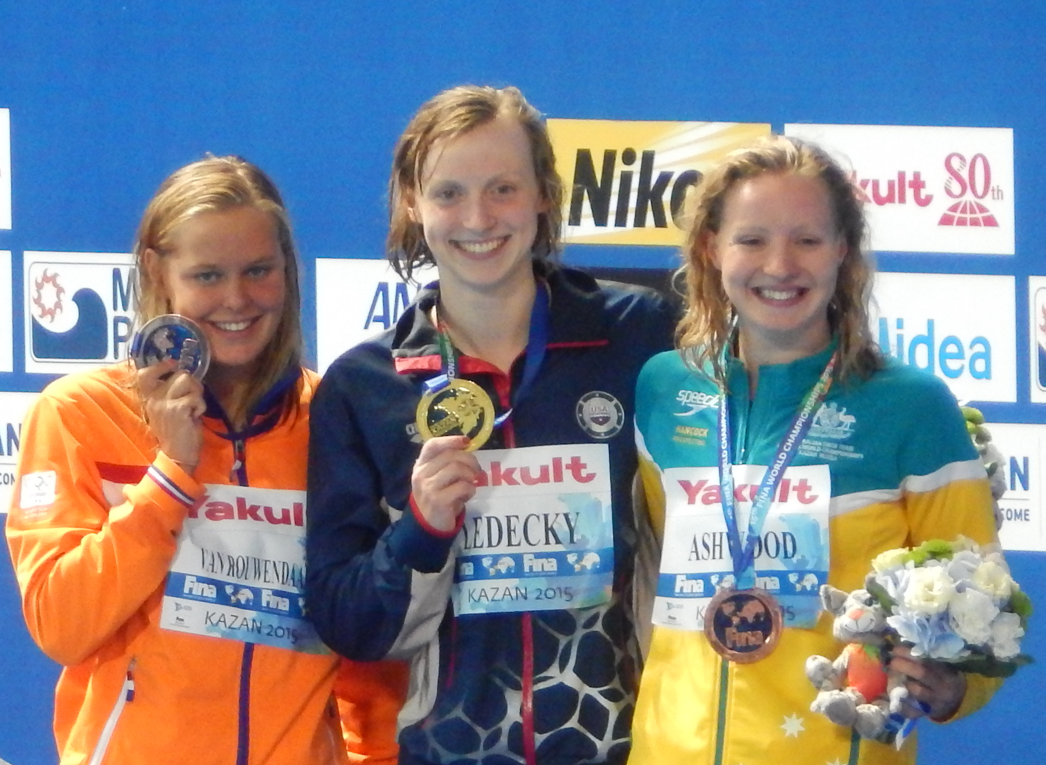 Medallists at the women's 400 metres freestyle in Kazan 2015